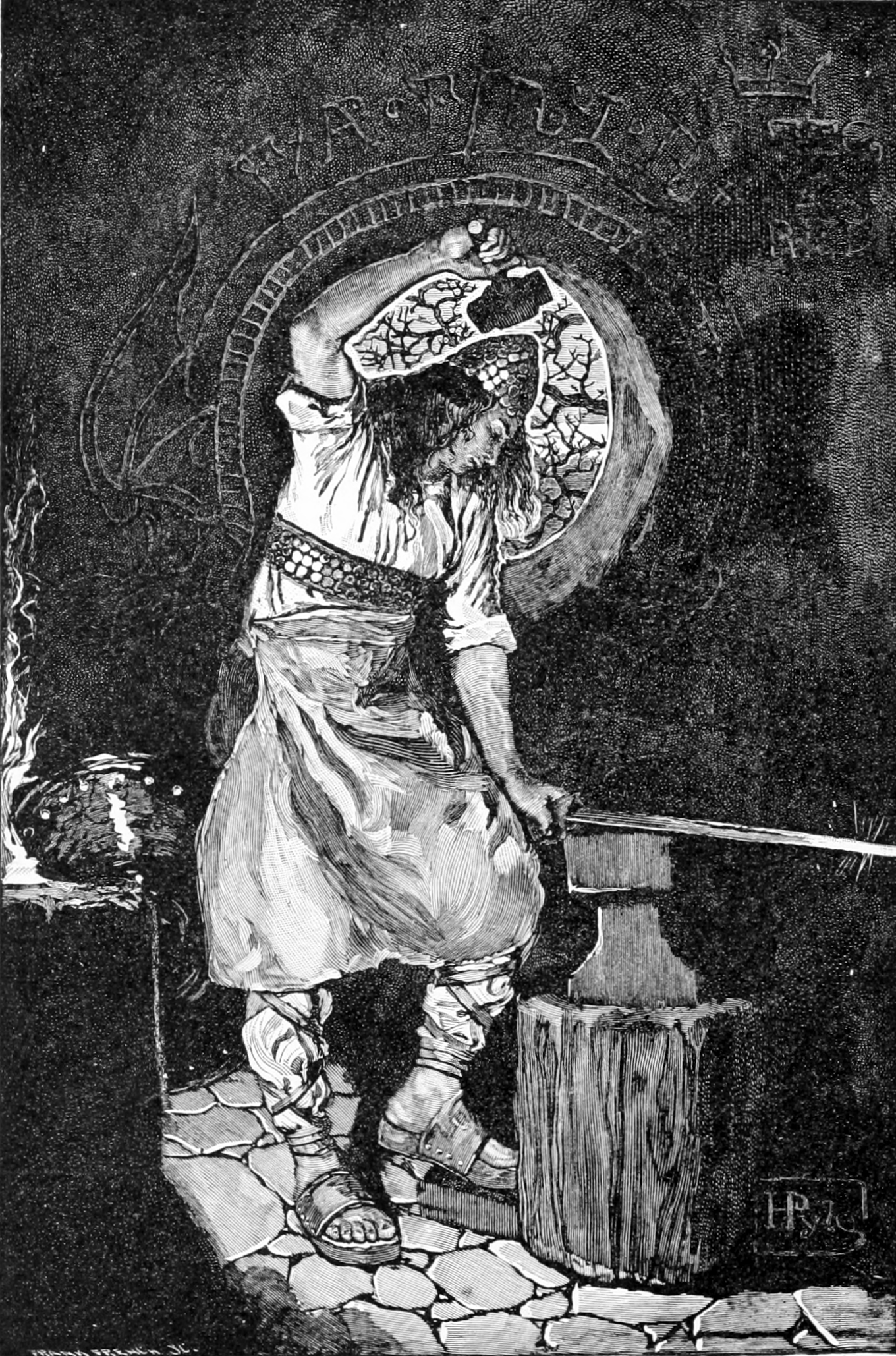 Captioned as "The Forging of Balmung". A scene from the Nibelungenlied, the legendary sword Balmung is forged.